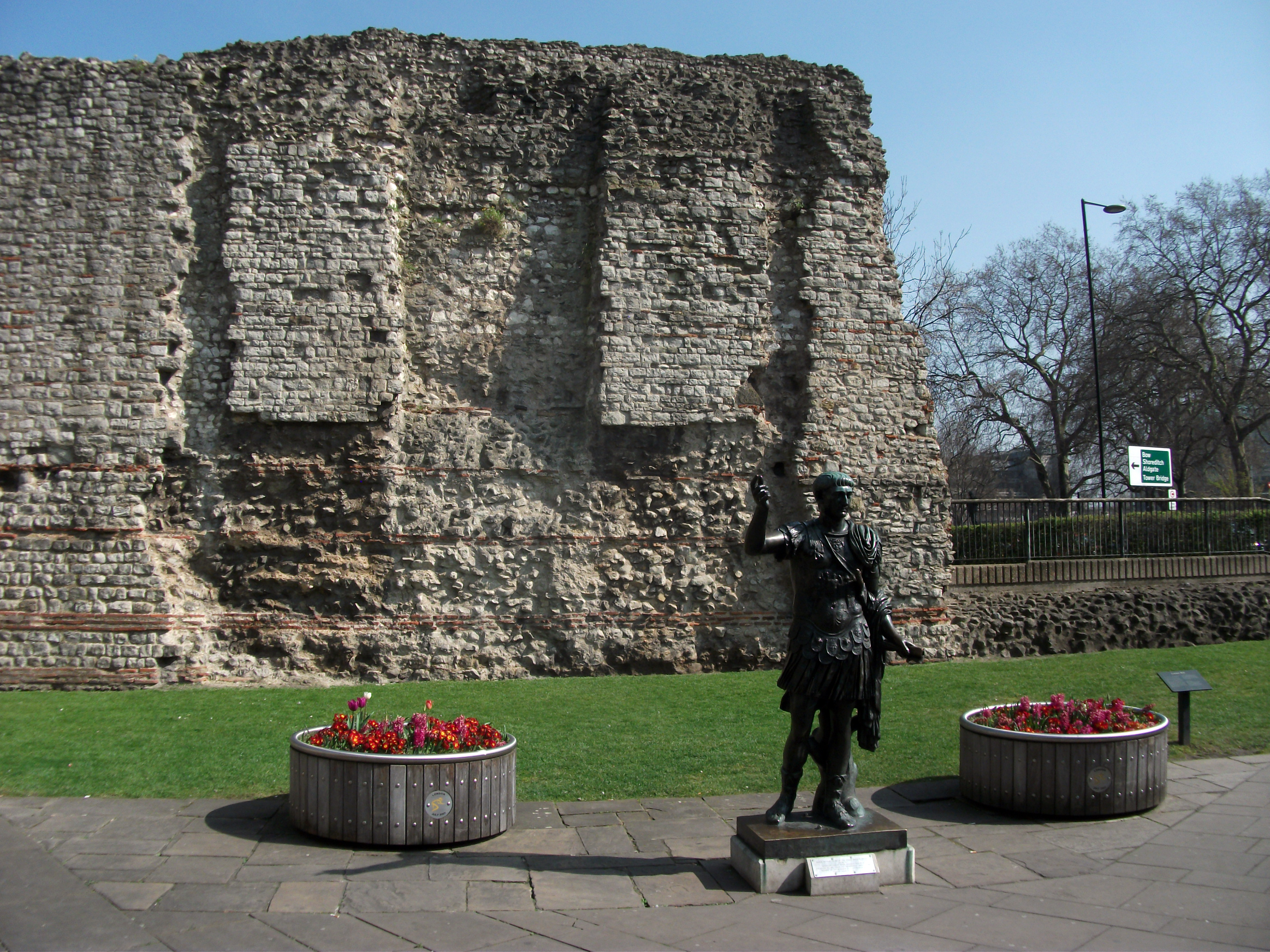 Statue of Trajan in front of a section of the Roman wall, Tower Hill (2014)